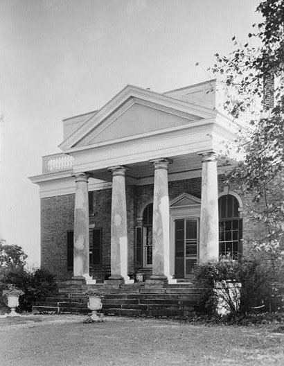 Bremo Plantation mansion at Bremo Bluff, Fluvanna County, Virginia, thought to be based on the Palladian architecture of Thomas Jefferson (source). Cropped from original